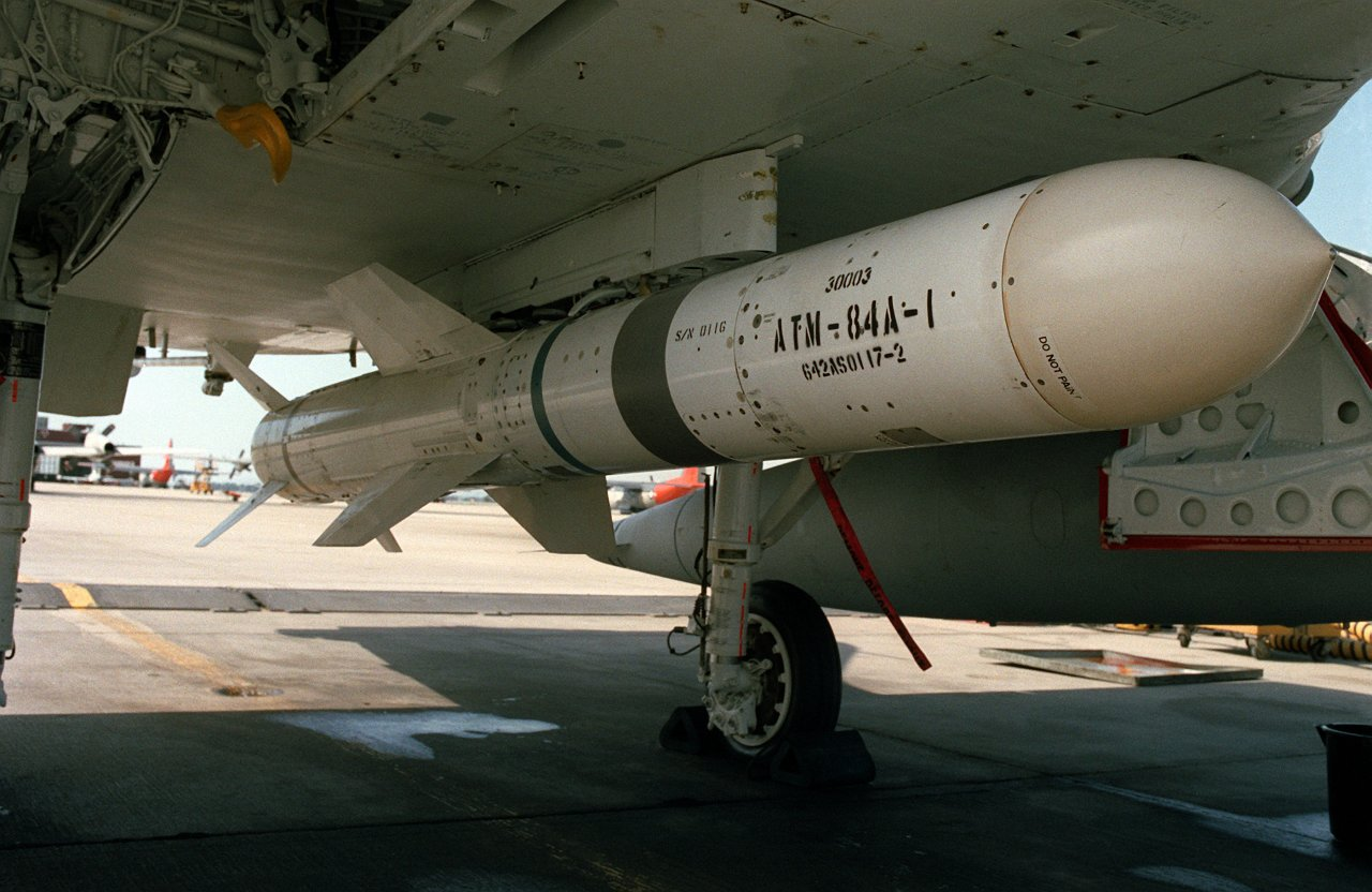 An AGM-84 Harpoon missile is fitted onto the fuselage of a U.S. Navy Douglas TA-4F Skyhawk from experimental squadron VX-4 at the Pacific Missile Test Center, Naval Air Station Point Mugu, California (USA), on 10 Sptember 1982.